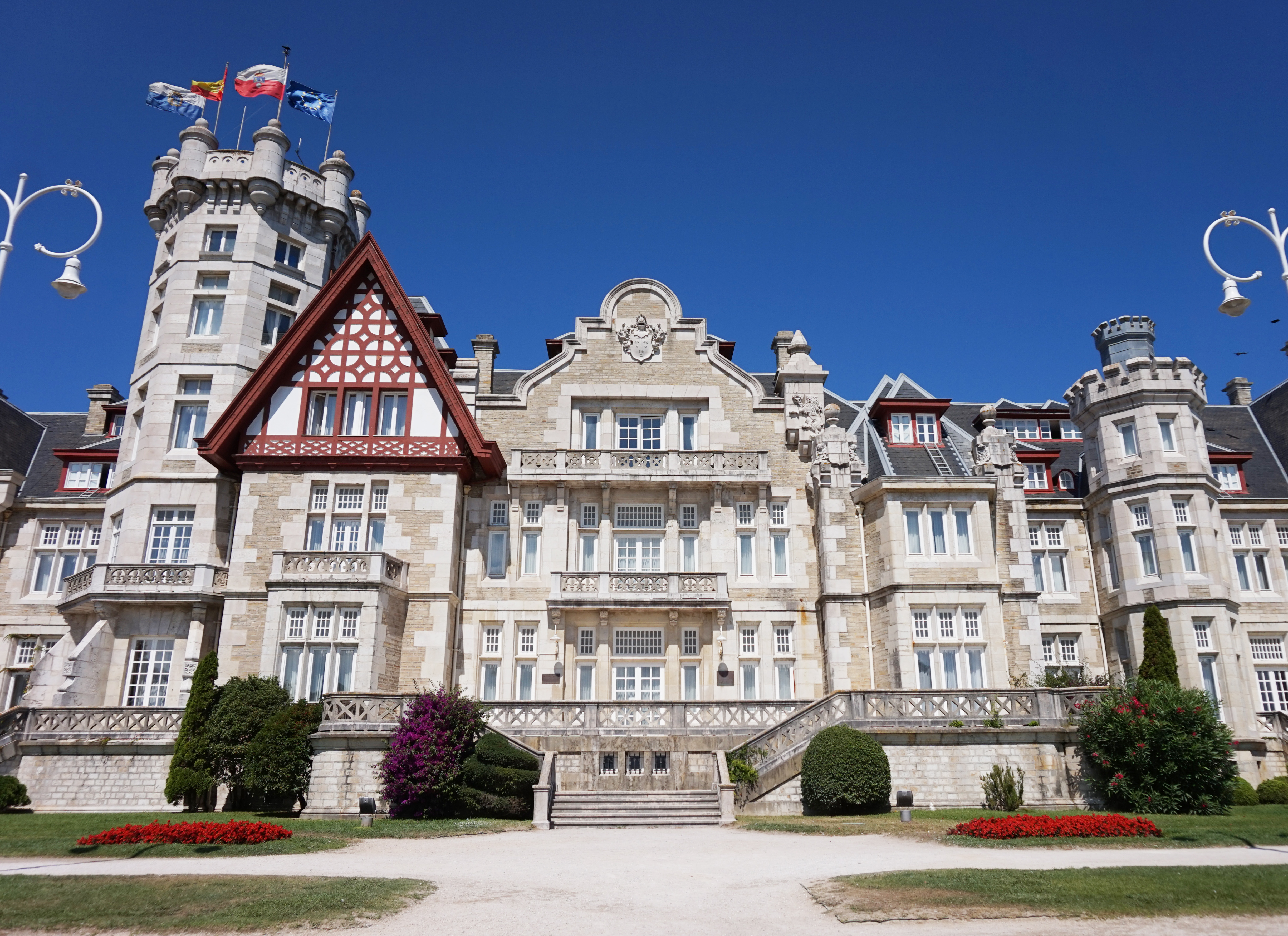 Palacio de la Magdalena in Santander, Spain. This photograph was taken with a Sony Alpha a5000.